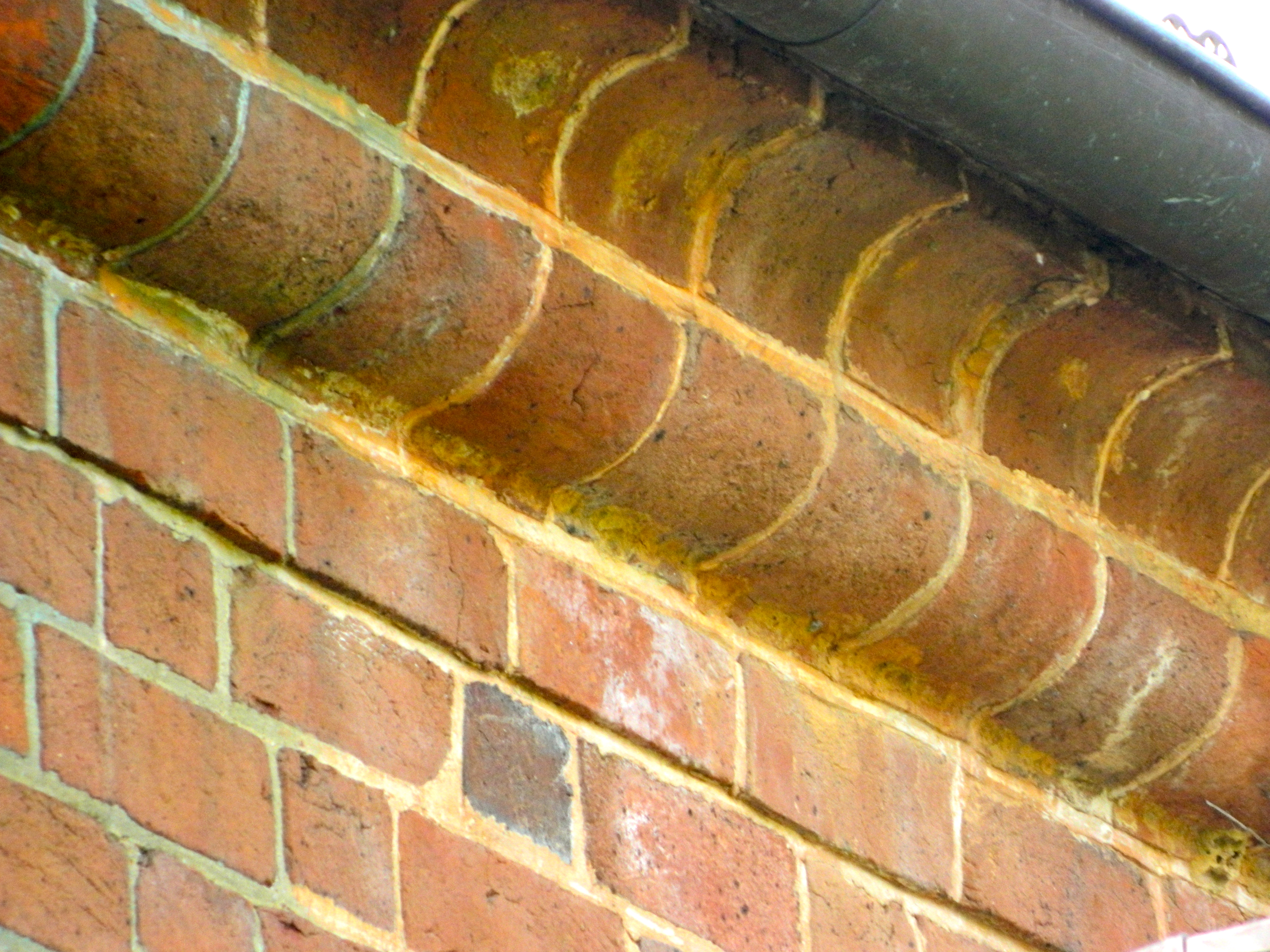 Brick Cornice Molding on Miller House located on Sugar Loaf Farm in Staunton, Virginia.